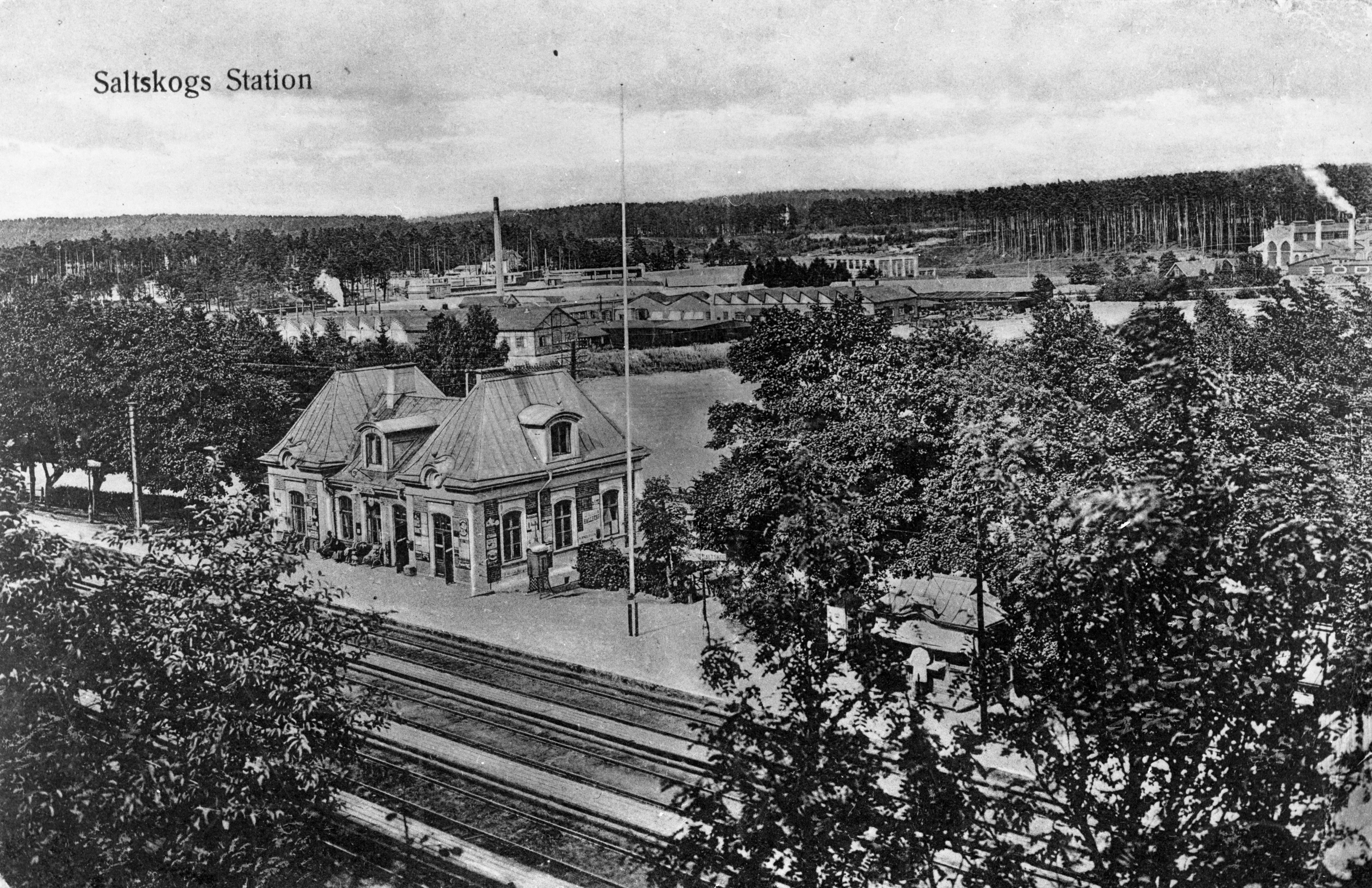 Järnvägsstationen Södertelge öfre/Saltskog station i Södertälje i Södermanland år 1900